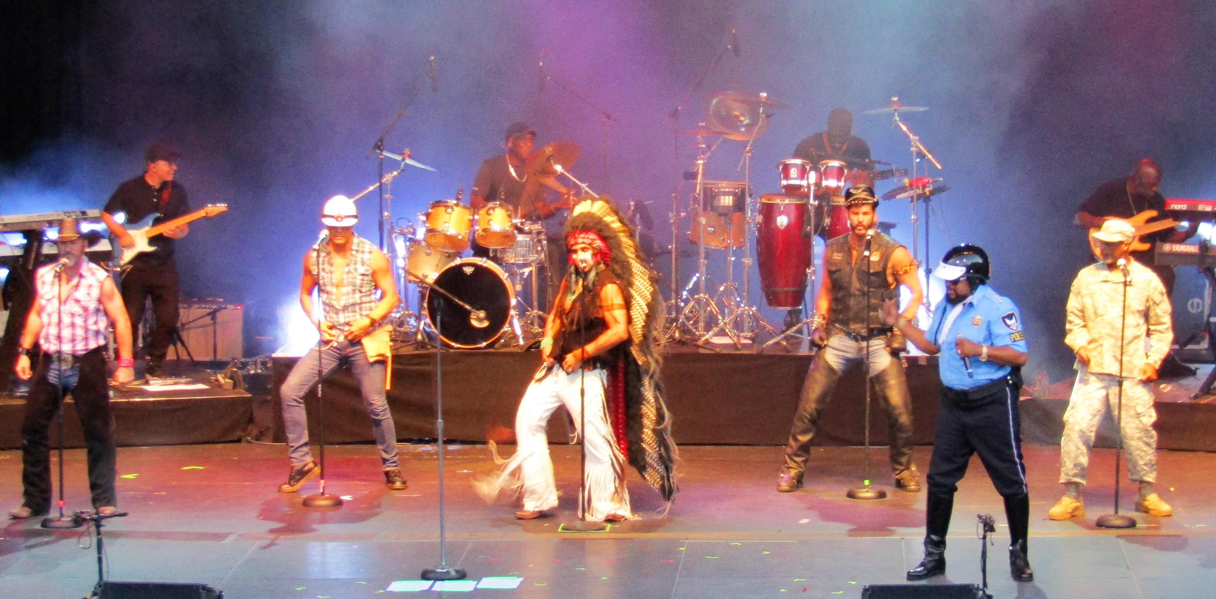 Village People performing at the Sandy Amphitheater.